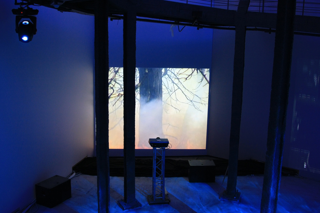 Experience 3 of the Mexican Pavilion at Expo 2008 Zaragoza.